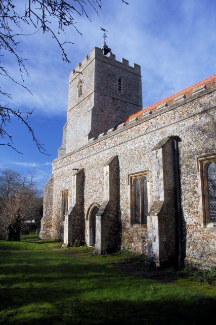 All Saints Church, Great Thurlow The churchyard to the south is rather small, and it is therefore difficult to photograph the whole of the church from this side. For details of the church